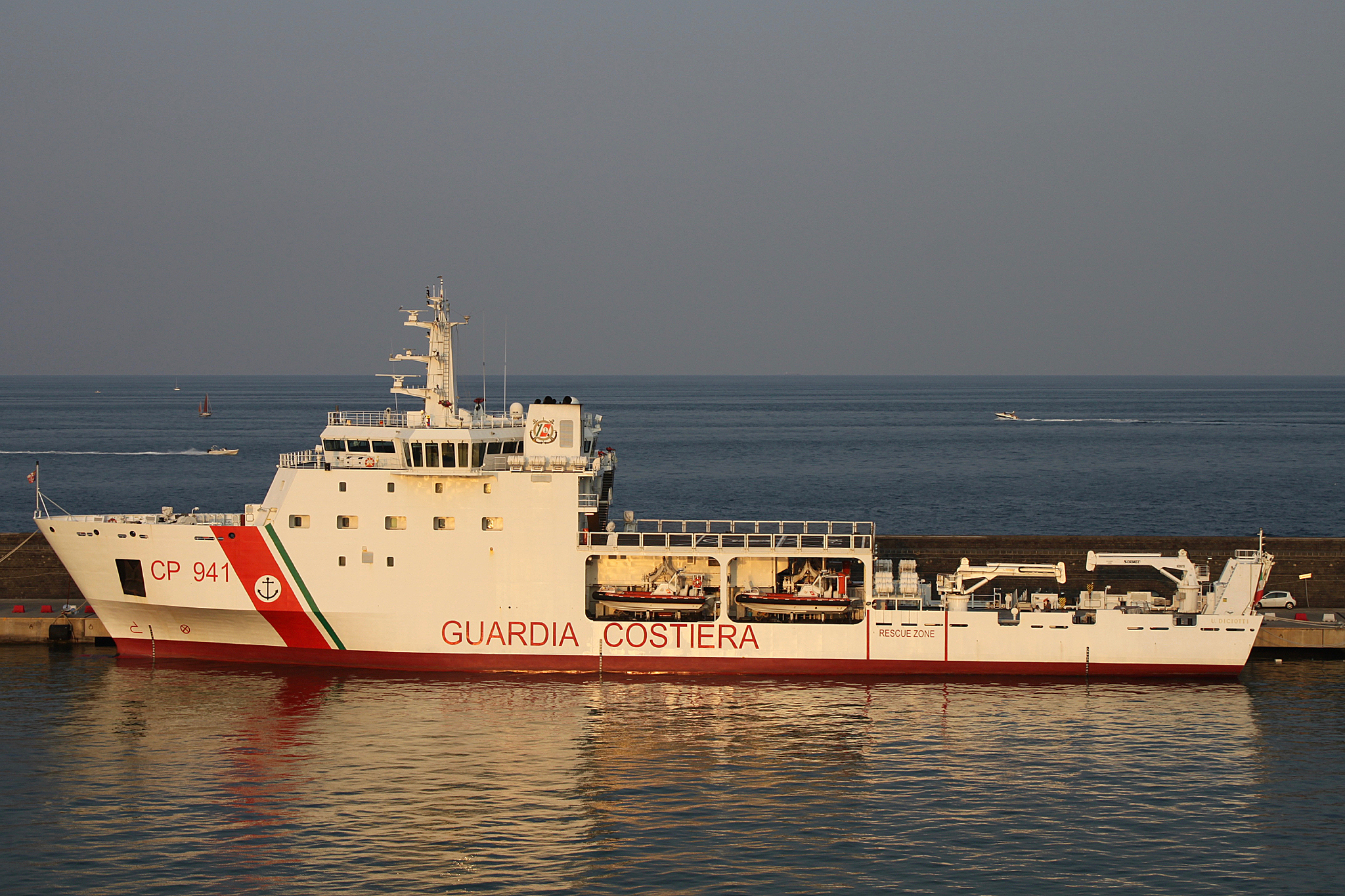 OPV "Ubaldo Diciotti" (CP 941) of the Italian Coast Guard in the port of Catania.